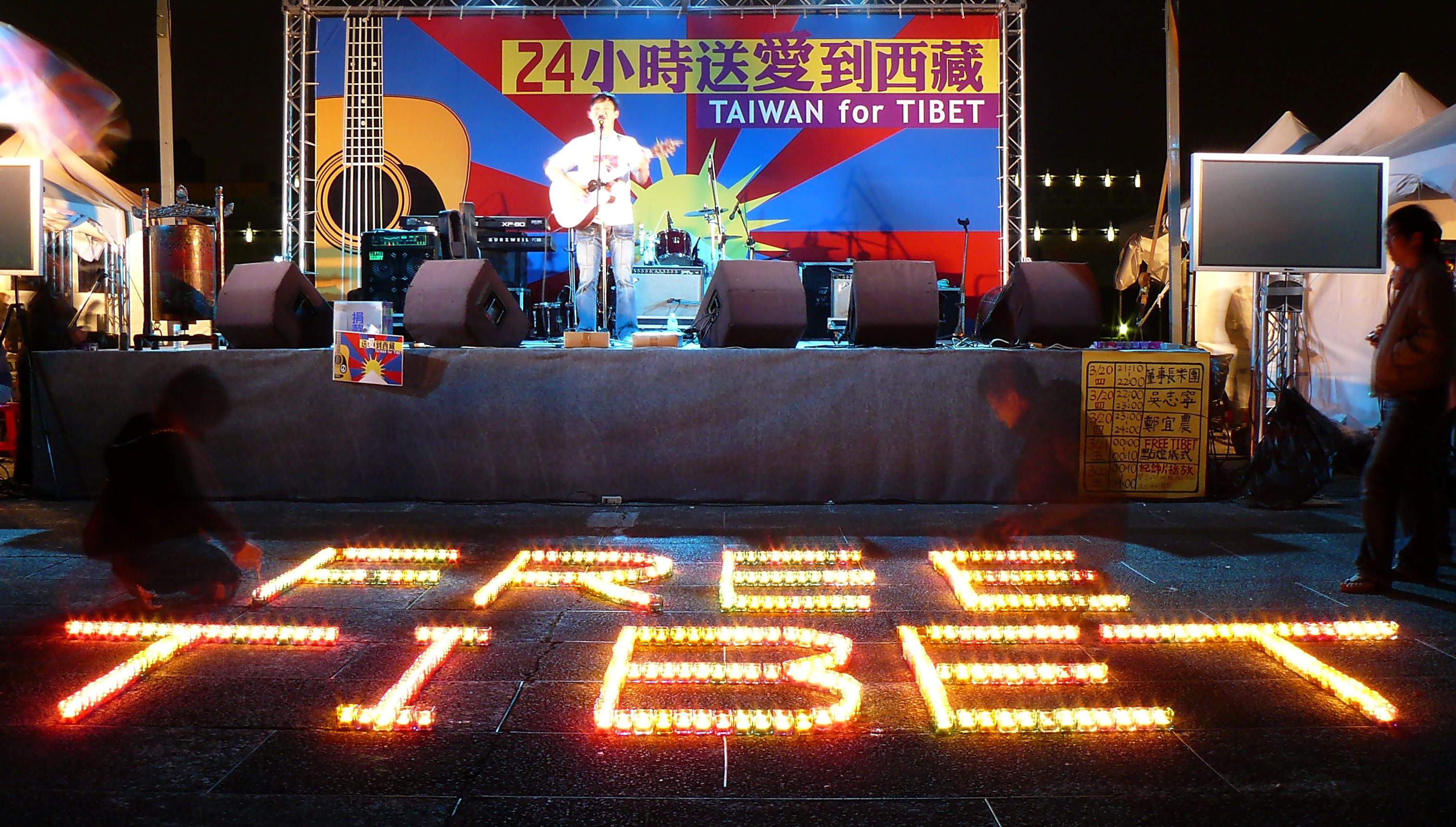 Free Tibet Rally, Chiang Kai Shek Memorial Square, Taipei, Taiwan